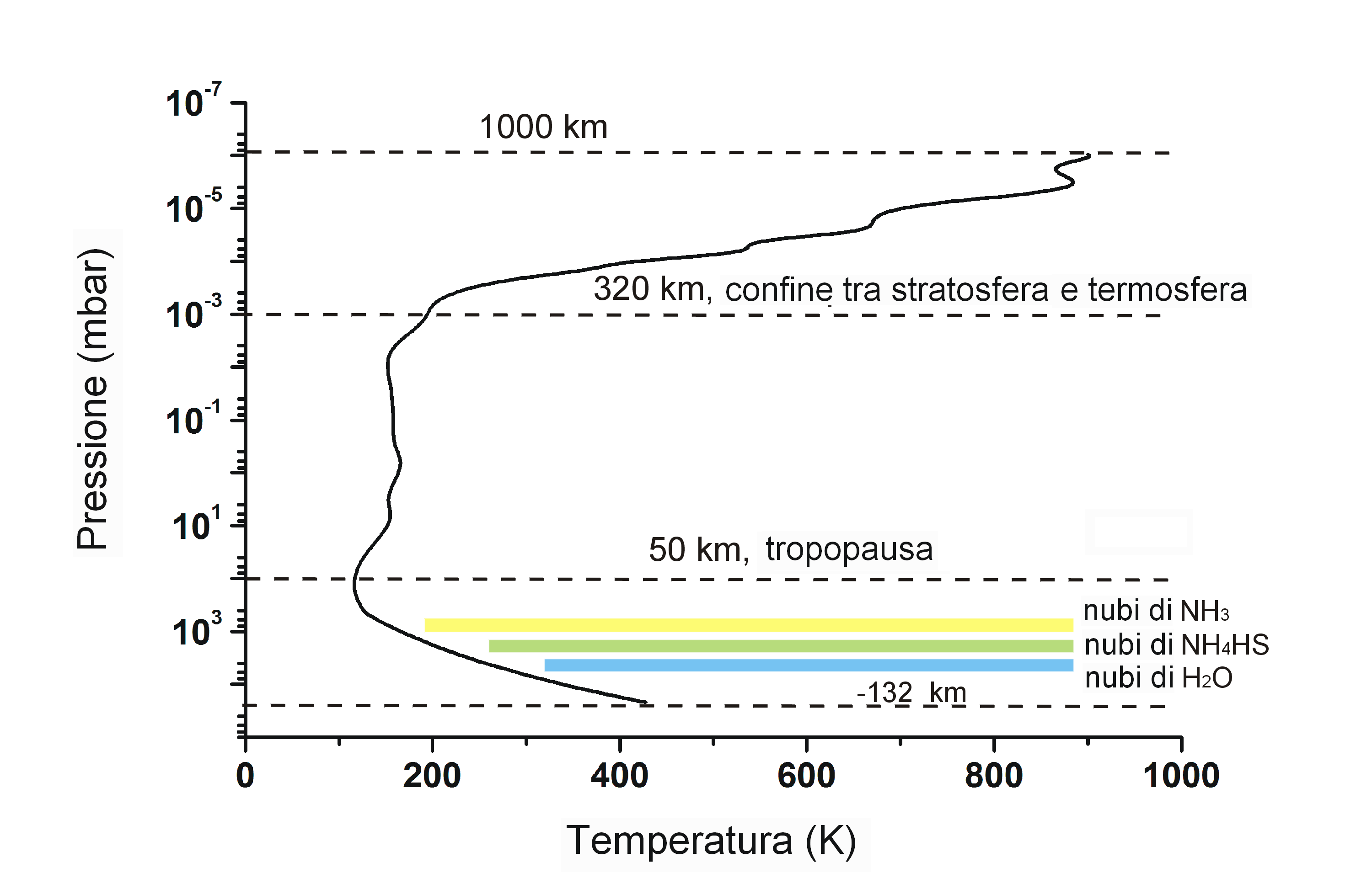 The image shows the vertical structure of the atmosphere of Jupiter. The temperature is shown as a function of pressure (black line). The approximate altitudes of atmospheric transitions troposhere–stratopshere (tropopause) and stratosphere–thermosphere are shown, as well as tropospheric cloud layers. The information was taken from Seiff, Alvin; Kirk, Don B.; Knight, Tony C.D. et.al. (1998). "Thermal structure of Jupiter's atmosphere near the edge of a 5-μm hot spot in the north equatorial belt". Journal of Geophysical Research 103: 22,857–22,889.